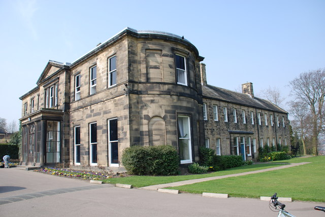 Farnley Hall, near Leeds, West Yorkshire